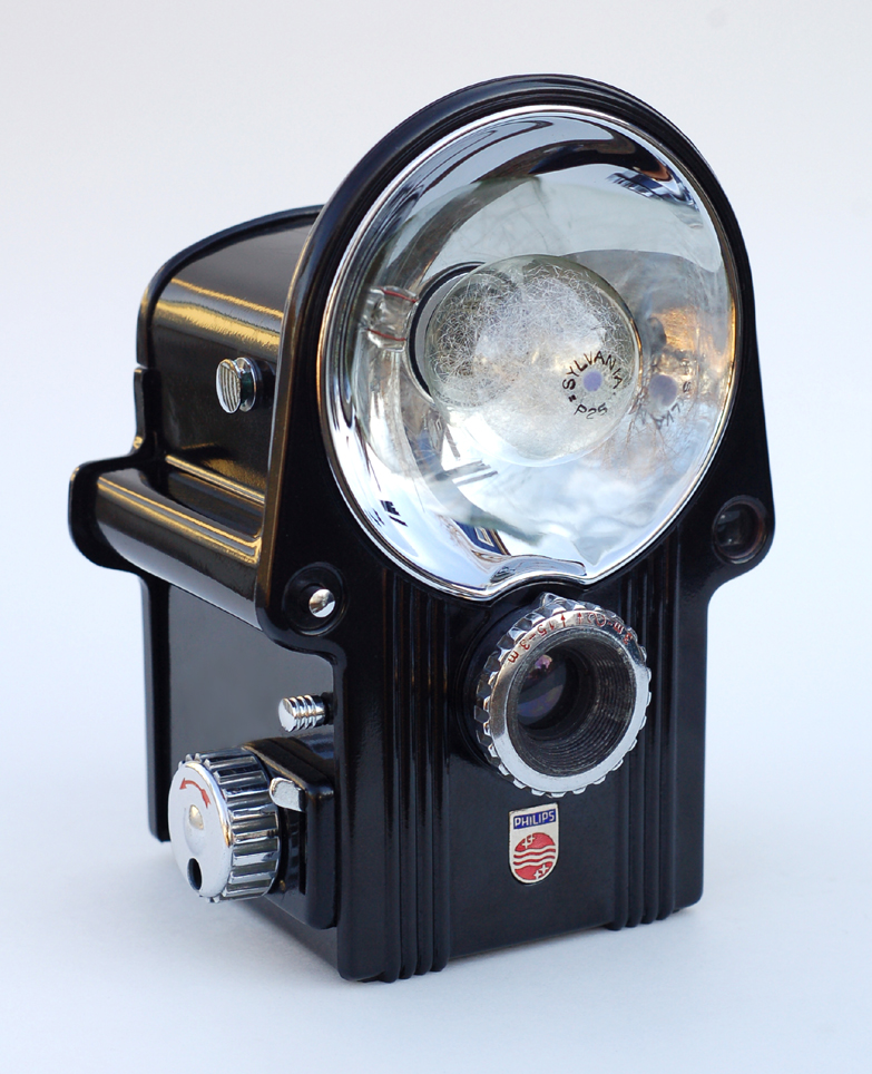 No doubt you are familiar with Philips, one of the largest electronics companies in the world. Way back in 1950, they manufactured this beautiful bakelite camera for 6cm square exposures on 620 film. The design, with its integrated flash reflector, is quite similar to the Spartus Press Flash, but this camera is far more scarce. The "Philips shield" logo, seen below the lens, made its first appearance in 1938. As the company was primarily known for its radios at the time, the wavy lines are meant to represent radio waves, while the stars represent the evening sky through which the radio waves would travel.